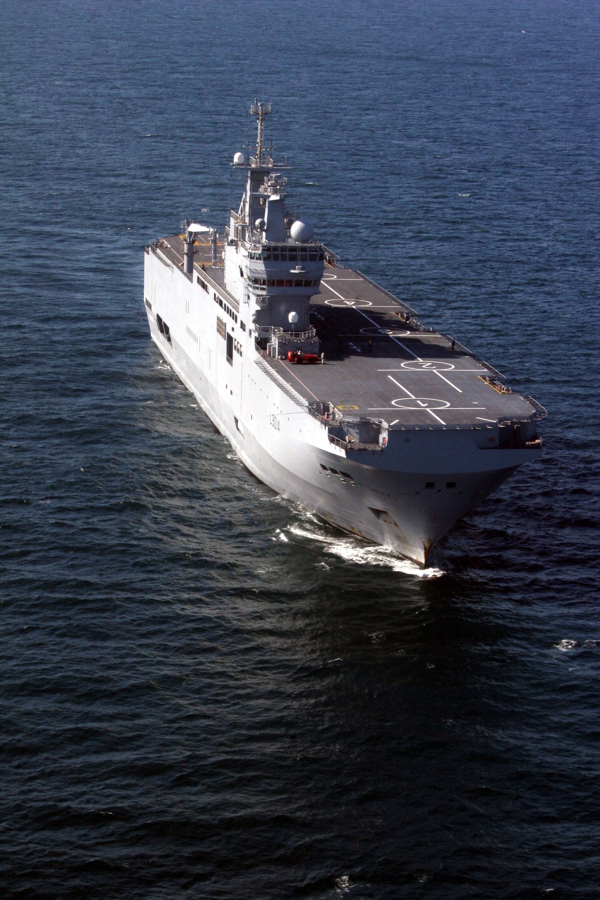 The French Command and Projection Ship Tonnerre, sails off the coast of North Carolina, 9 of February 2009, during Composite Training Unit Exercise. COMPTUEX is part of the 22nd MEU's pre-deployment training program. The MEU is scheduled to deploy this spring. (Official Marine Corps photo by Cpl. Alicia R. Giron)